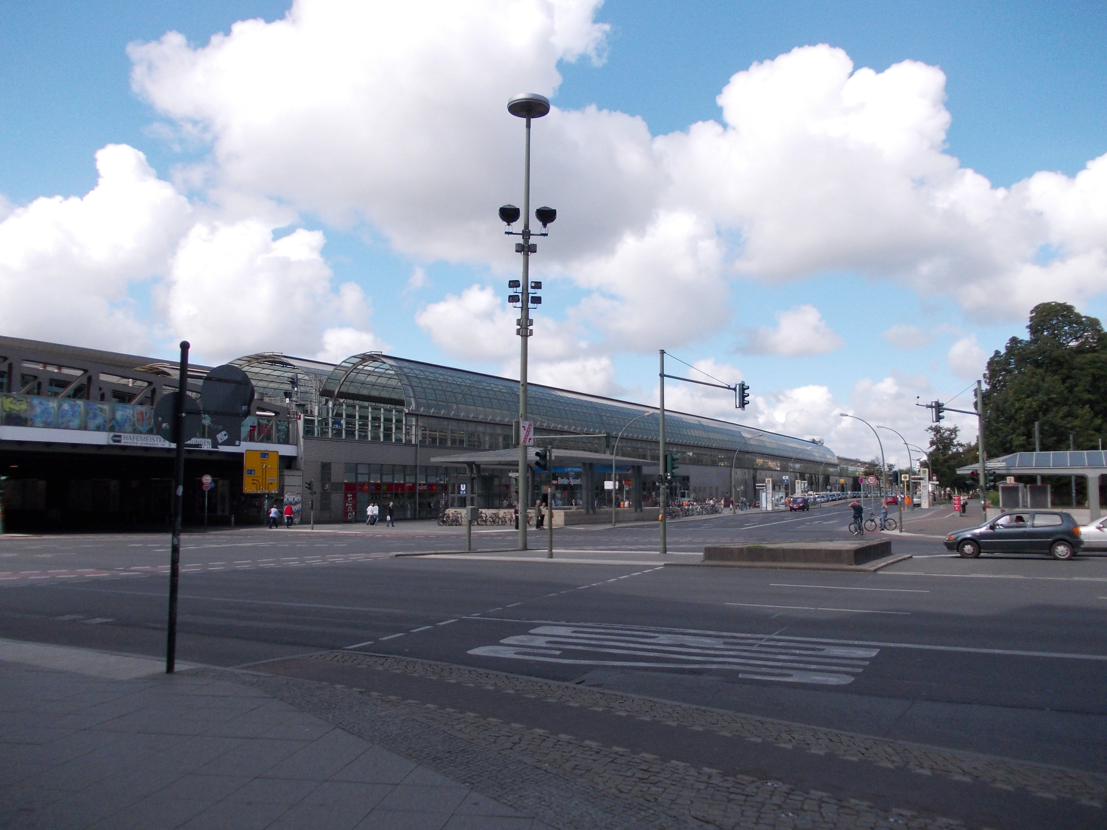 Berlin-Spandau train station